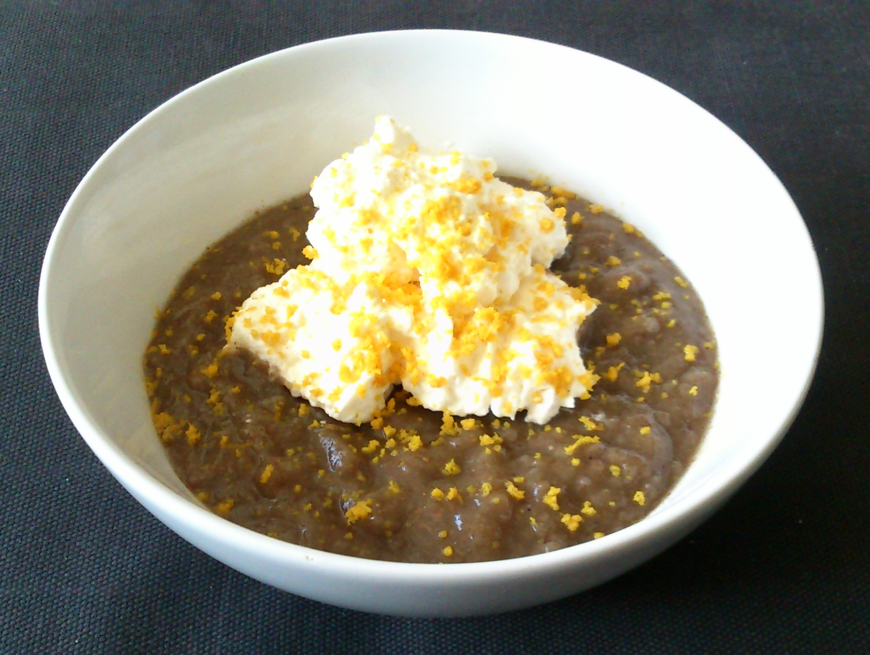 A serving of Øllebrød topped with whipped cream and a sprinkle of orange zest.